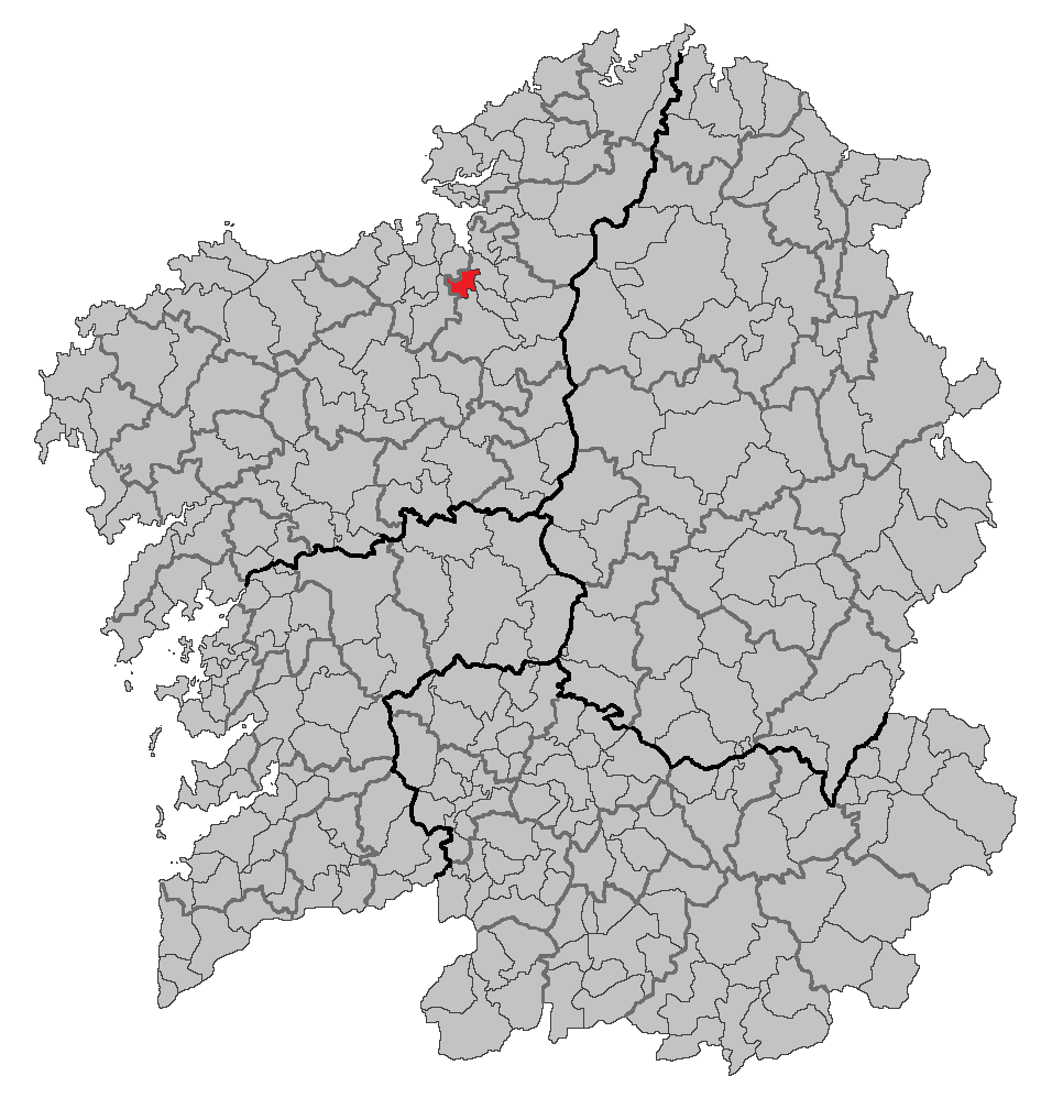 Location map of Betanzos, A Coruña, Galicia